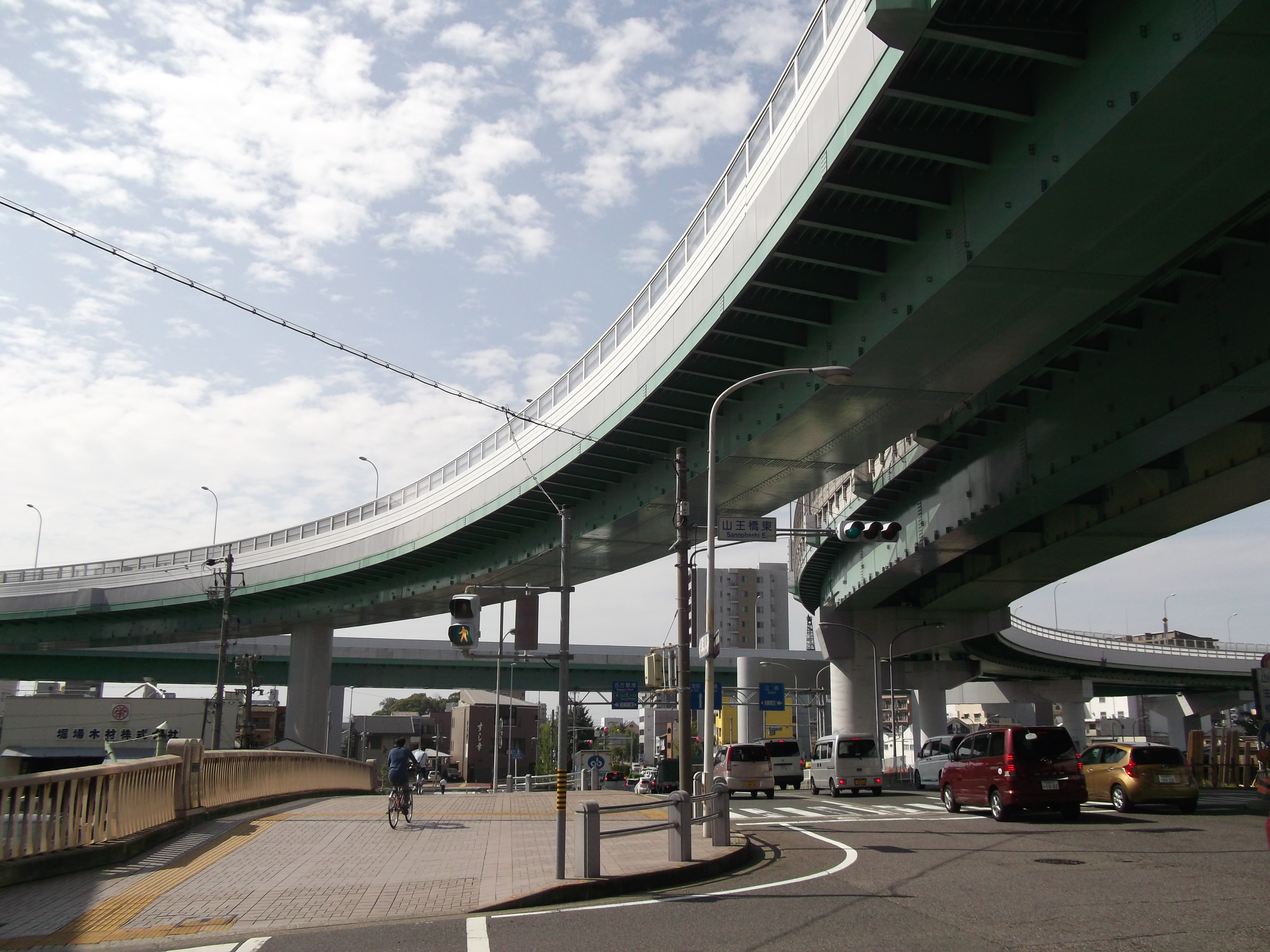 Sanno Junction on the Nagoya Expressway Ring Route and Route 4 in Nakagawa-ku, Nagoya City